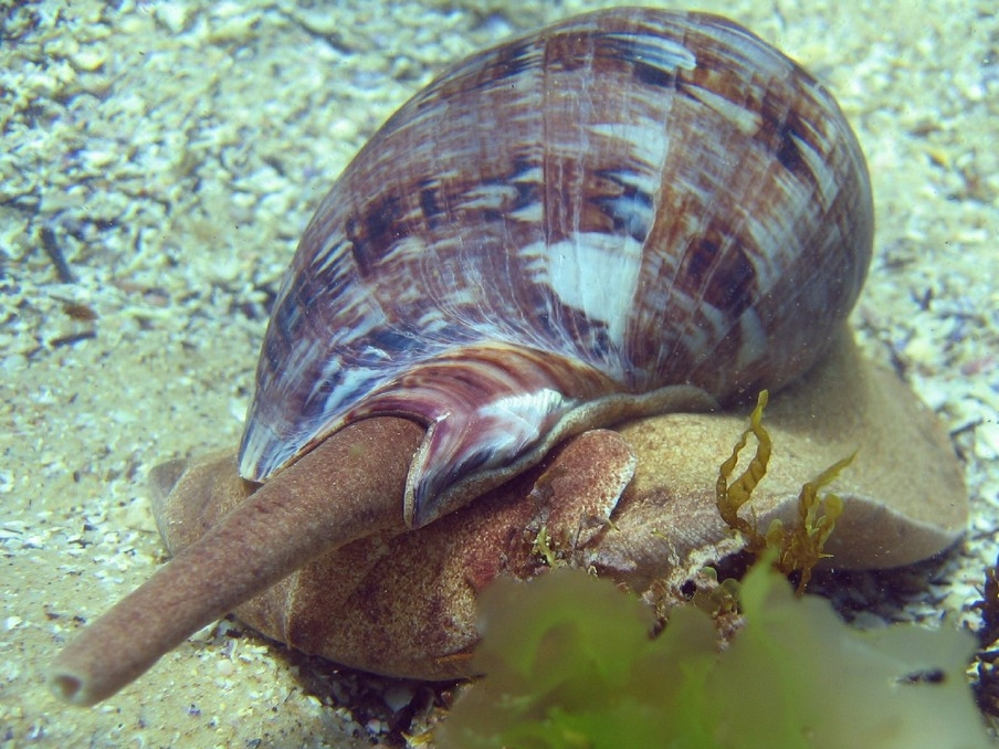 A Magnificent Volute (Cymbiola magnifica) on a substrate of broken shells. Shelly Beach, Manly, NSW